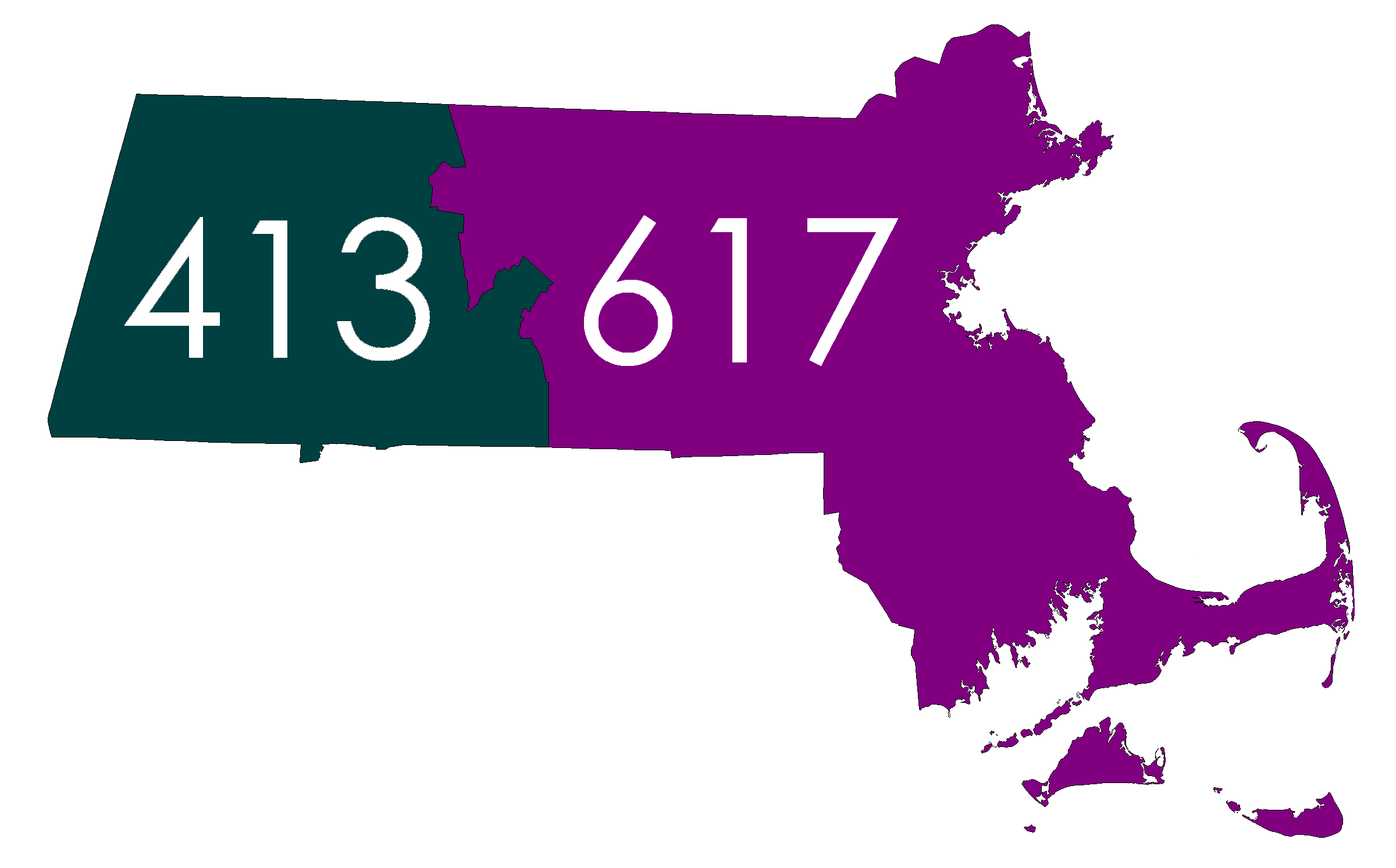 Made myself for Wikipedia